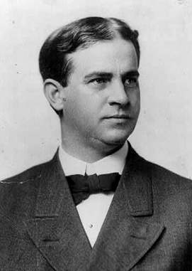 Senator Harry B. Hawes (D-Missouri) as a young man. Photographed c.1903. This image is maintained in a public doman status by the U.S. Library of Congress.